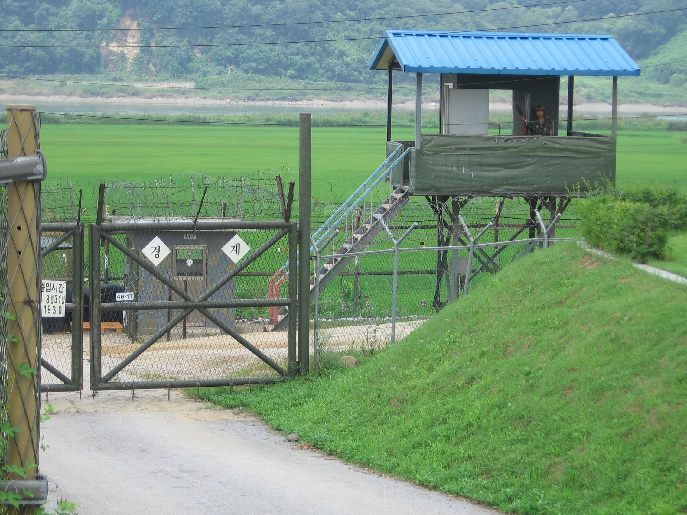 A South Korean sentry near the demilitarized zone (Imjingang).